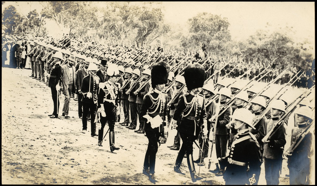 Photograph by Frank H. Boland, 12 March 1913, from the Naming of Canberra ceremony. Photograph shows the Governor General, Lord Denman, inspecting cadets.